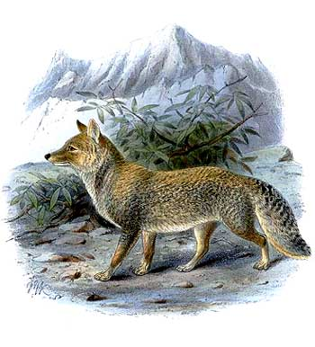 An illustration of a Tibetan fox